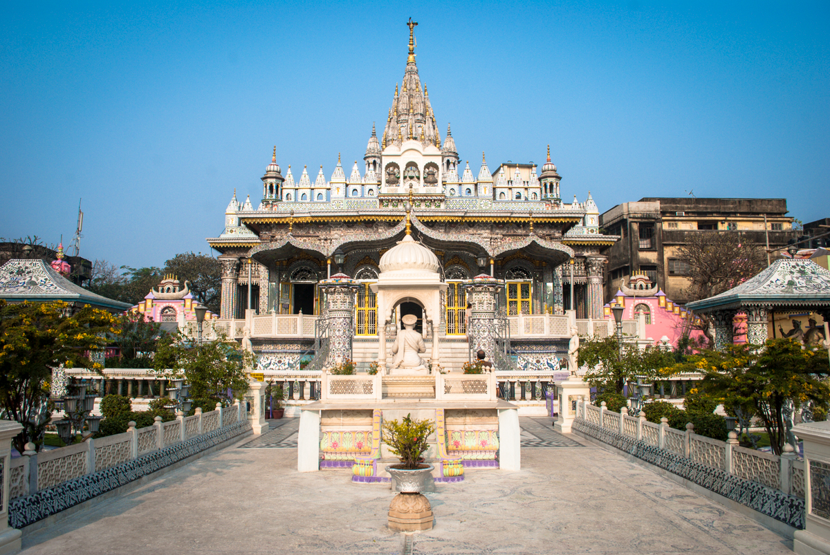 Front view of Pareshnath Mandir